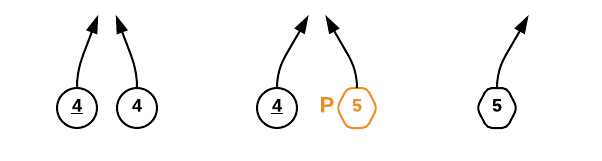 step 3